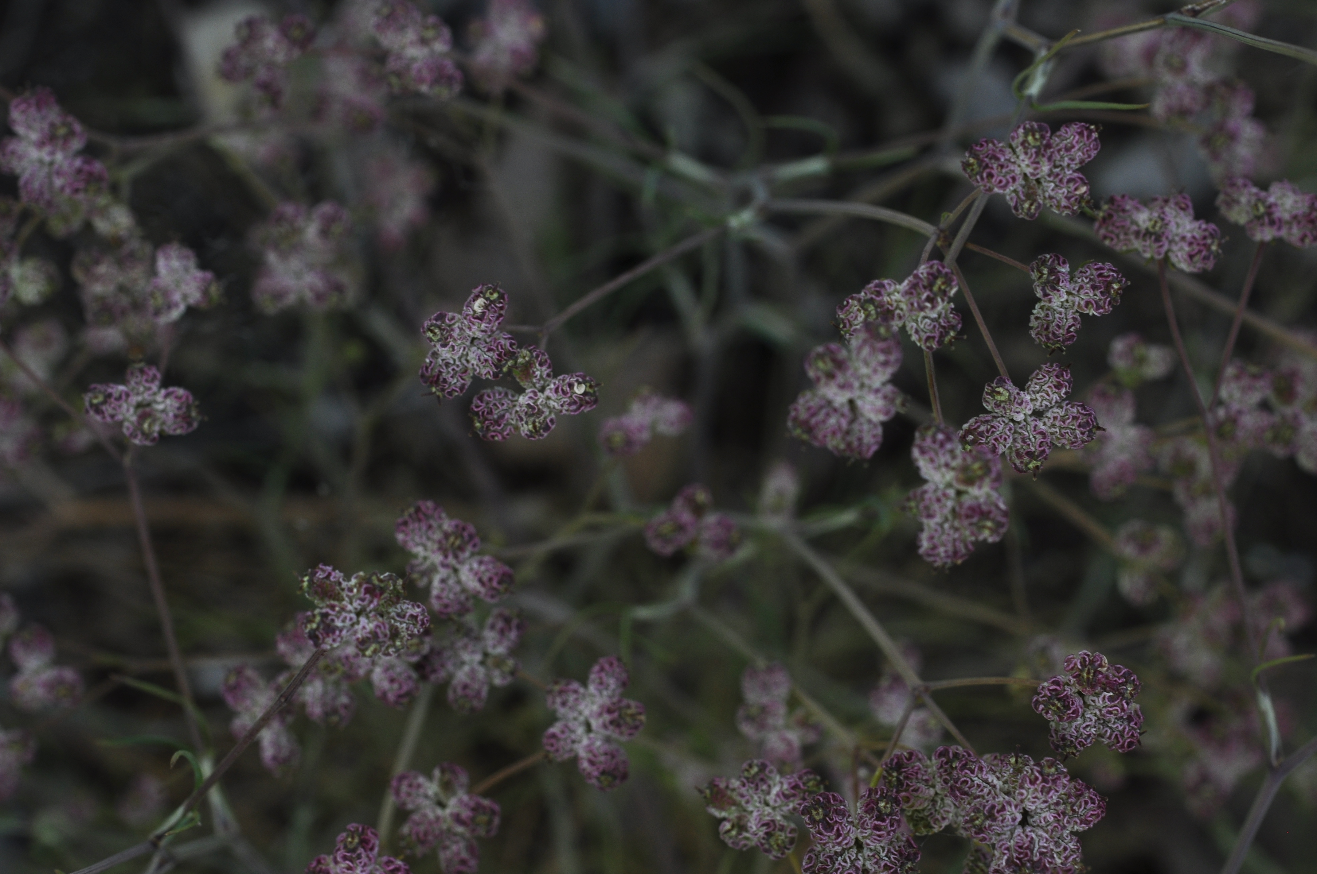 An endemic Crimean plant Rumia crithmifolia (Willd.) K.-Pol., the European Red list and the Red Book of Ukraine: Besh-Tash Ridge, Karadag Biostation, Sourth-Eastern Crimea, Automonuos Republic of Crimea. June, 2017. #flora_taurica